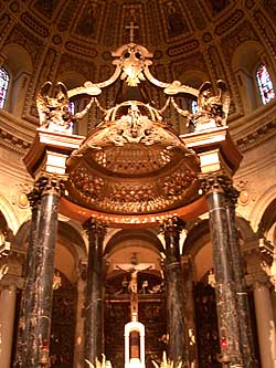 Altar of Cathedral of Saint Paul in St. Paul